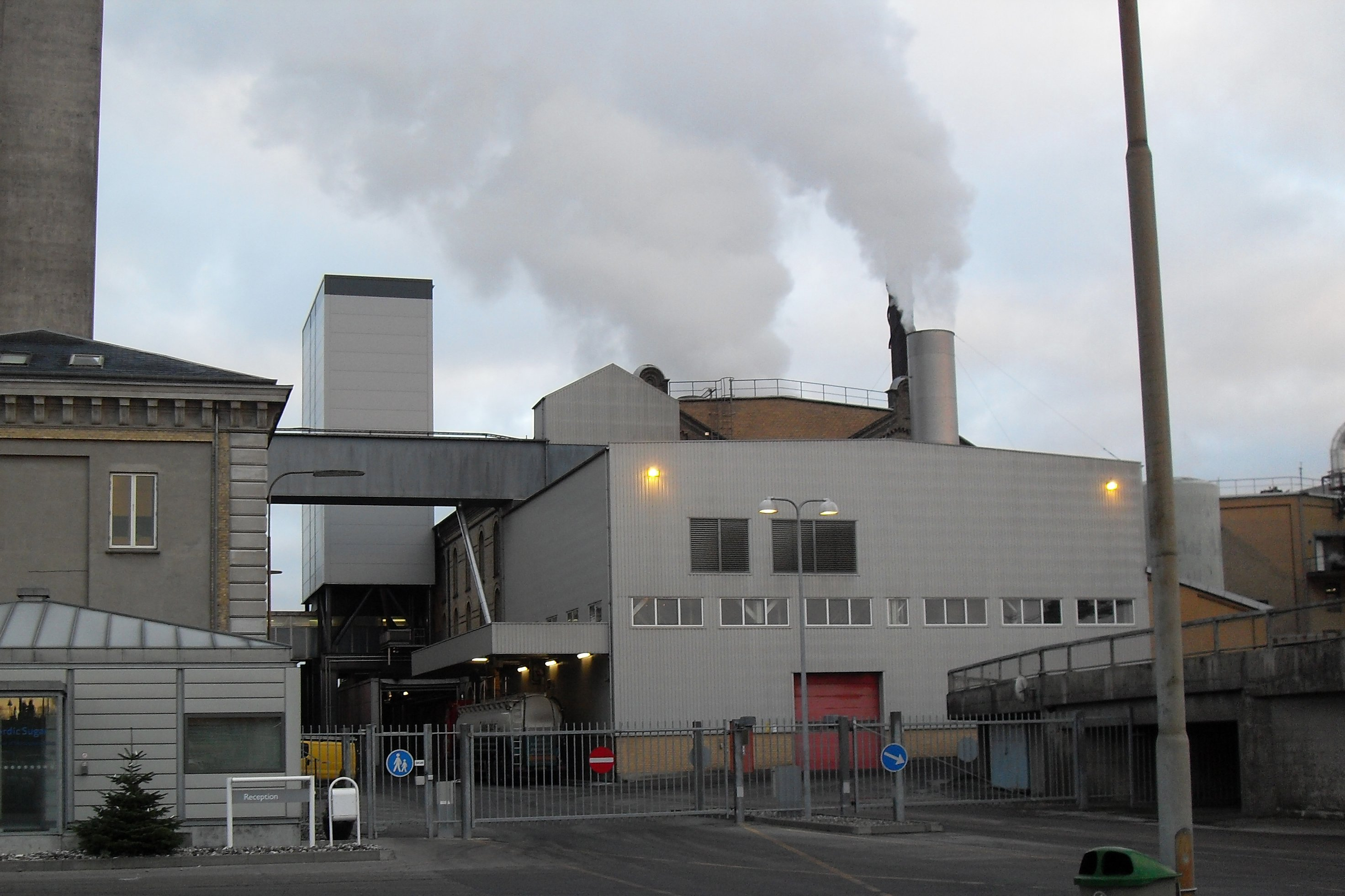 entrance of the Nakskov sugar factory